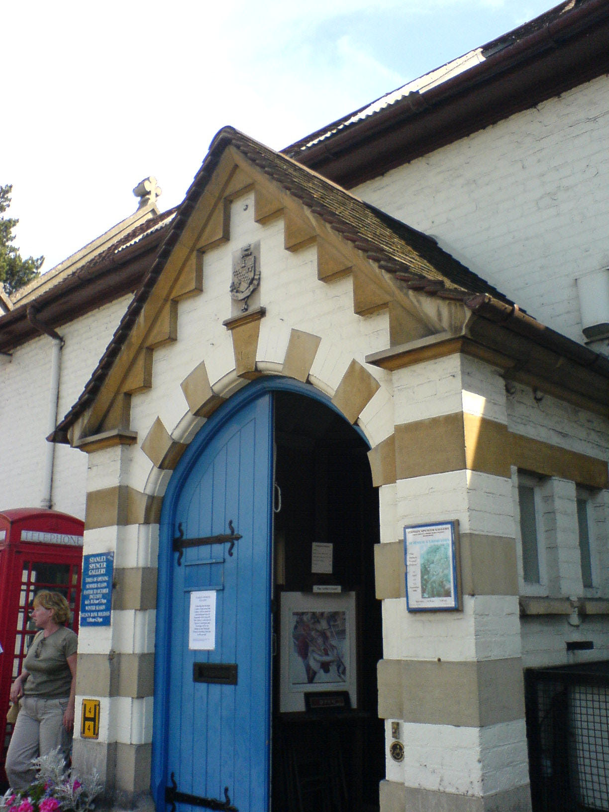 Cookham, Berkshire, England: entrance to the former Wesleyan Methodist chapel, now the Stanley Spencer Gallery.